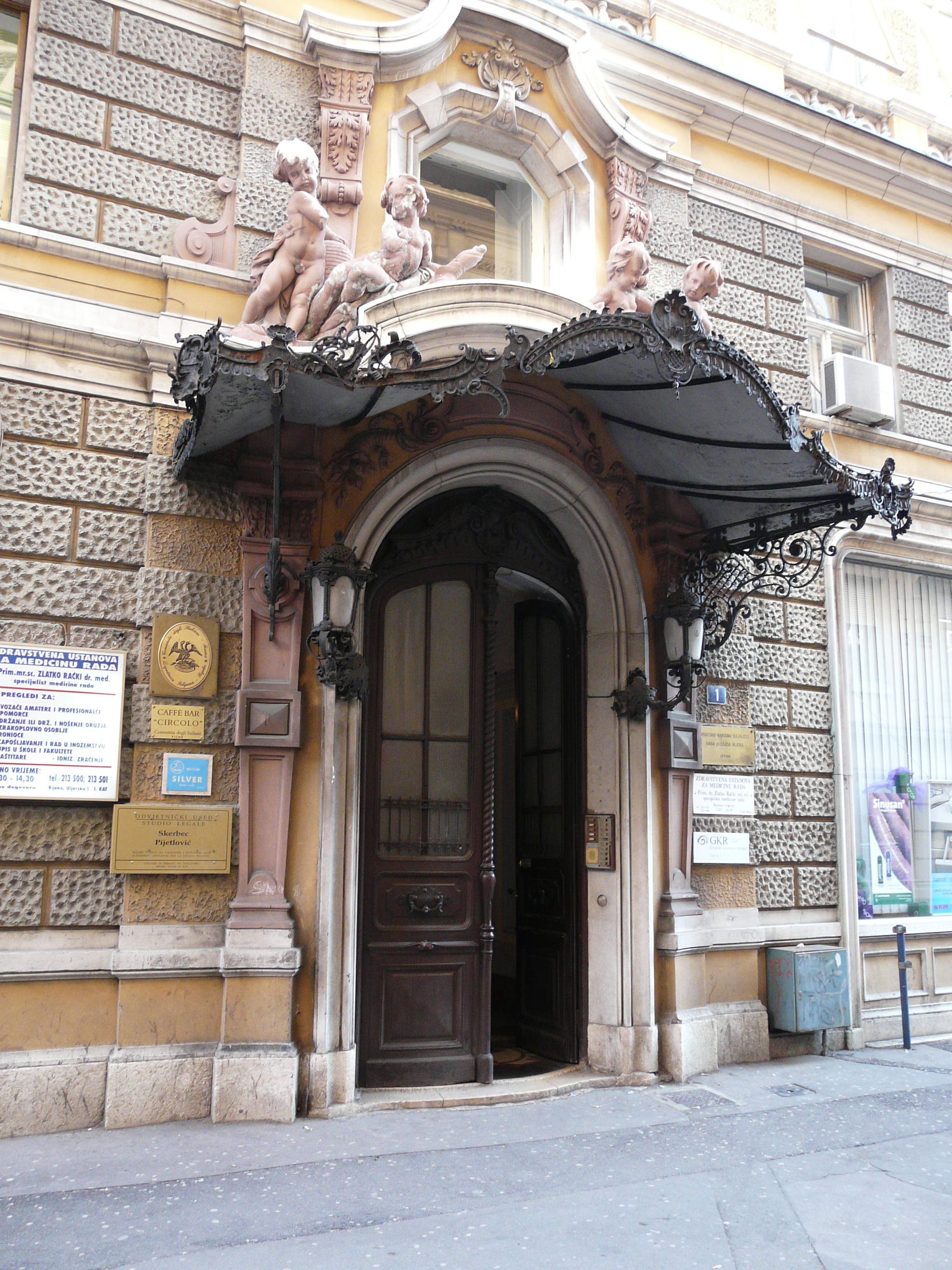 Entrance in Palace "Modello" on Vatroslava Lisinskog street in RIjeka, Croatoa.